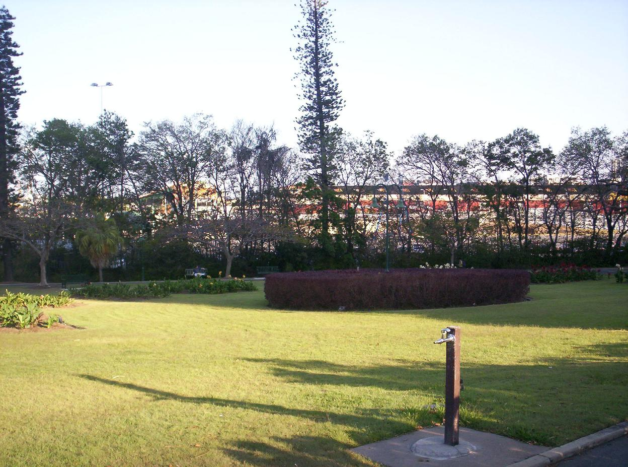 Bowen Park, Brisbane ( this photograph was taken by Figaro )